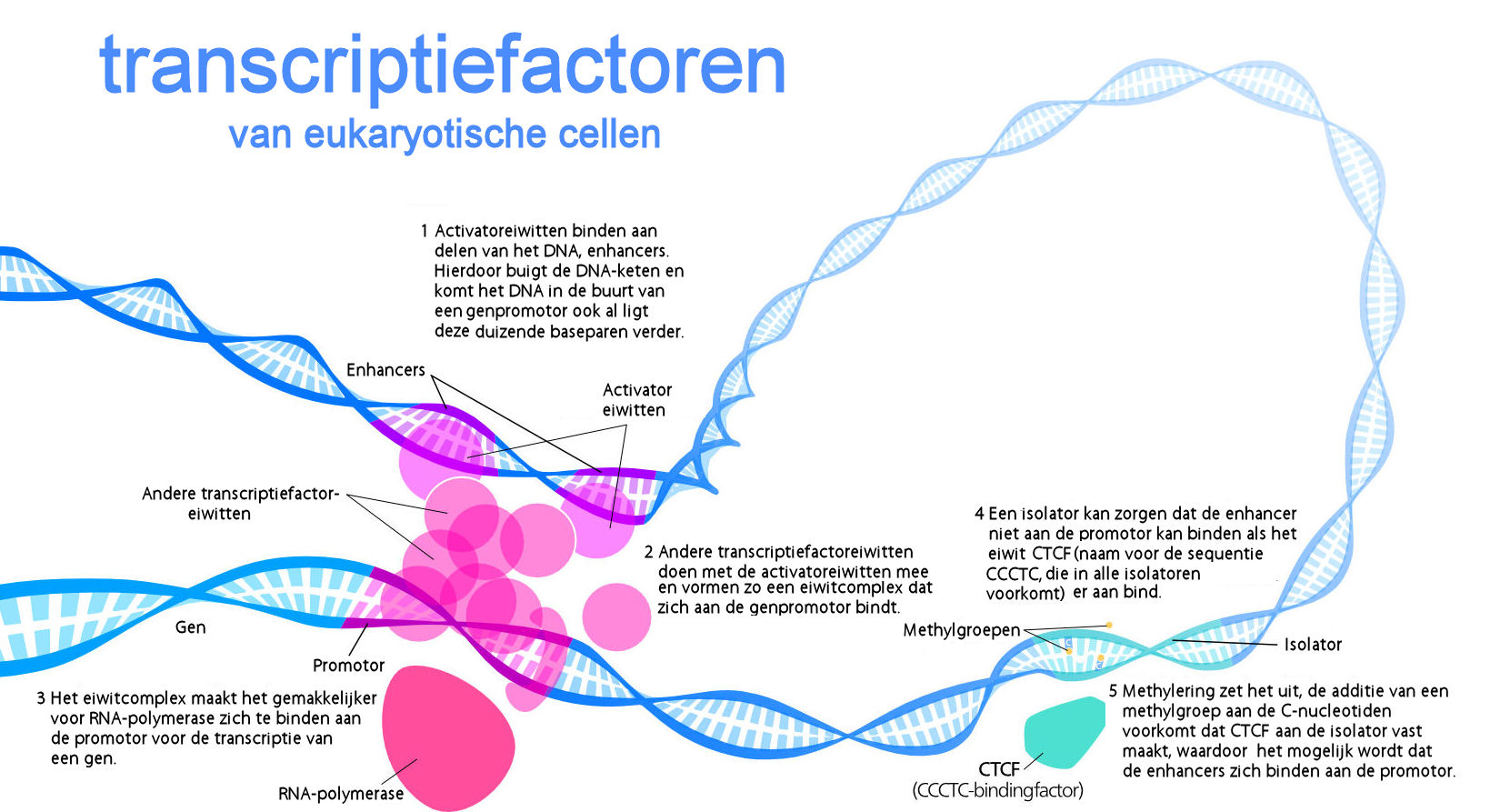 Diagram of gene transcription factors. Dutch text